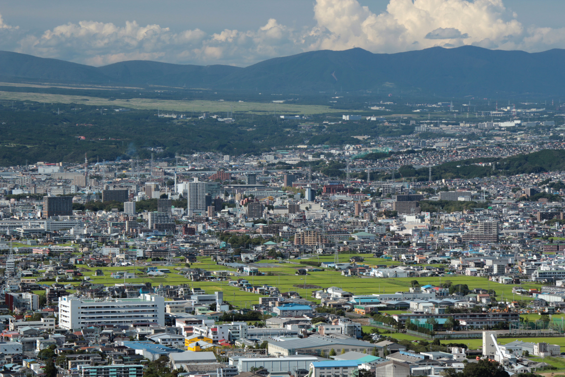 Downtown Mishima city, Shizuoka prefecture, Japan.